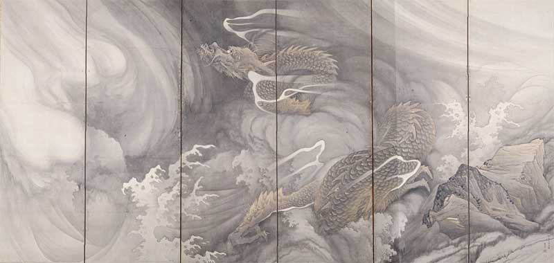 Dragon in Clouds, by Maruyama Okyo